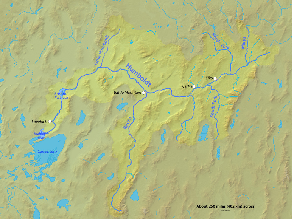 Map of the Humboldt River watershed, largest in Nevada and the Great Basin, that flows to the Humboldt Sink